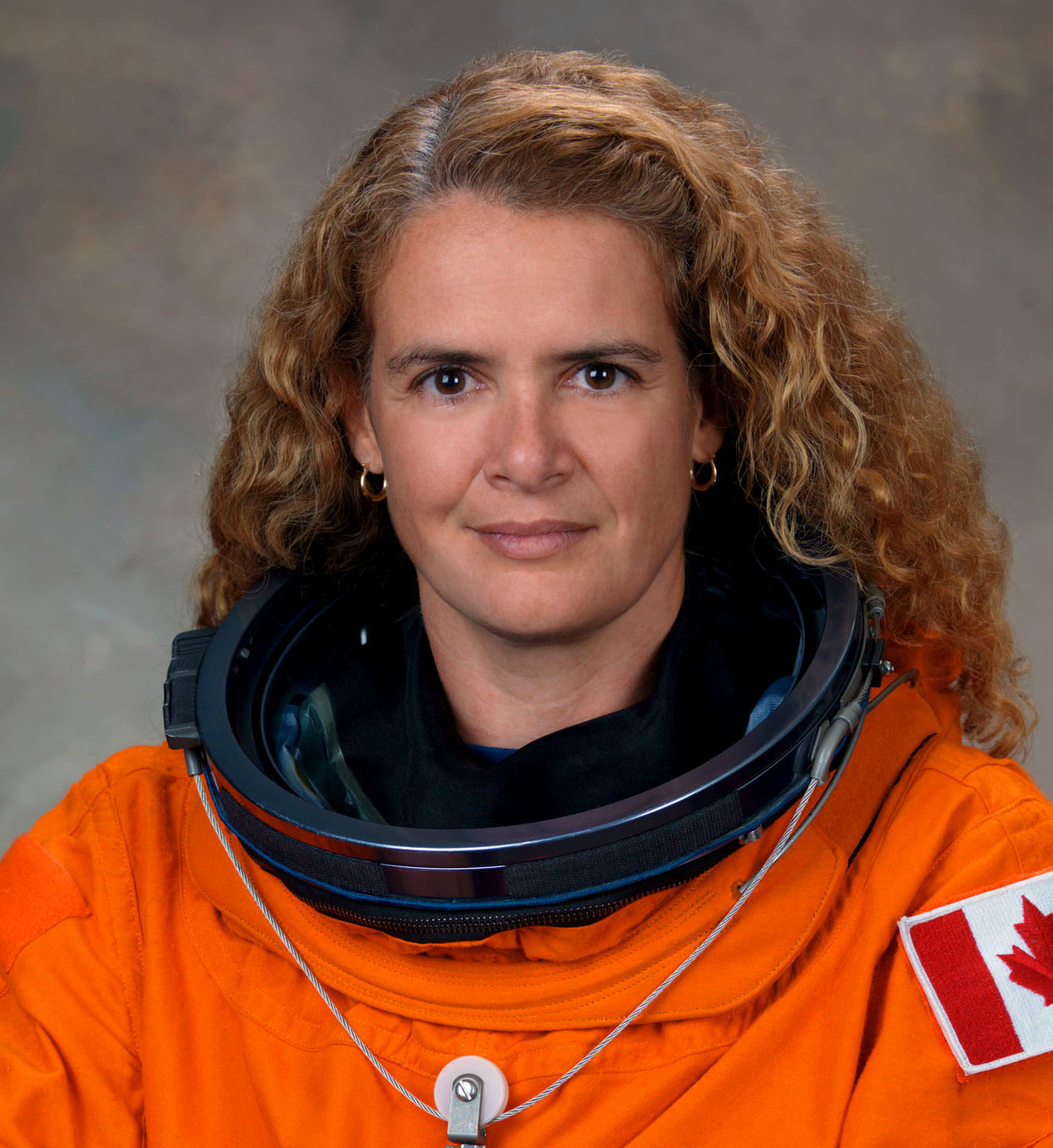 Canadian Space Agency astronaut Julie Payette, STS-127 Mission Specialist